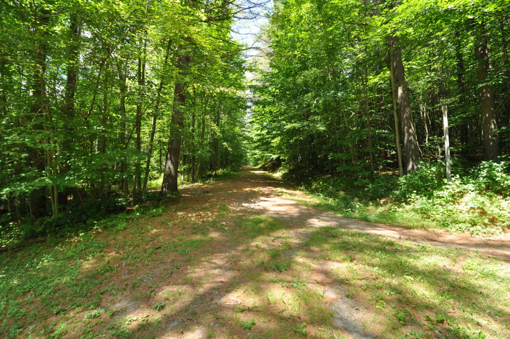 Thetford Hill State Park, Thetford, Vermont. CCC-built road.